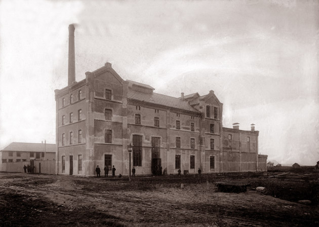 Bodø Brewery